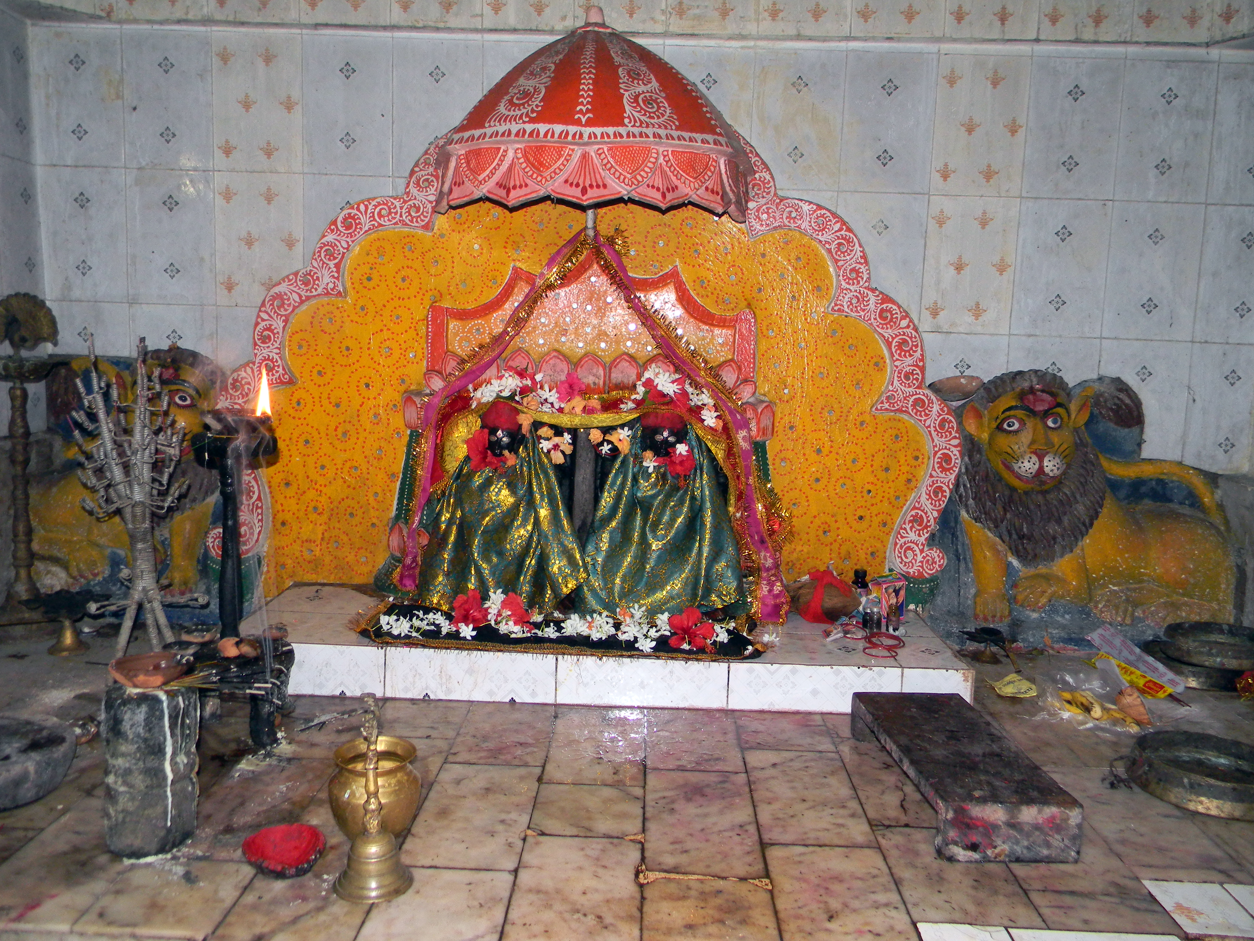 Maa Barunei, Khurda, Odisha This media file is uploaded with Odia loves Wikipedia